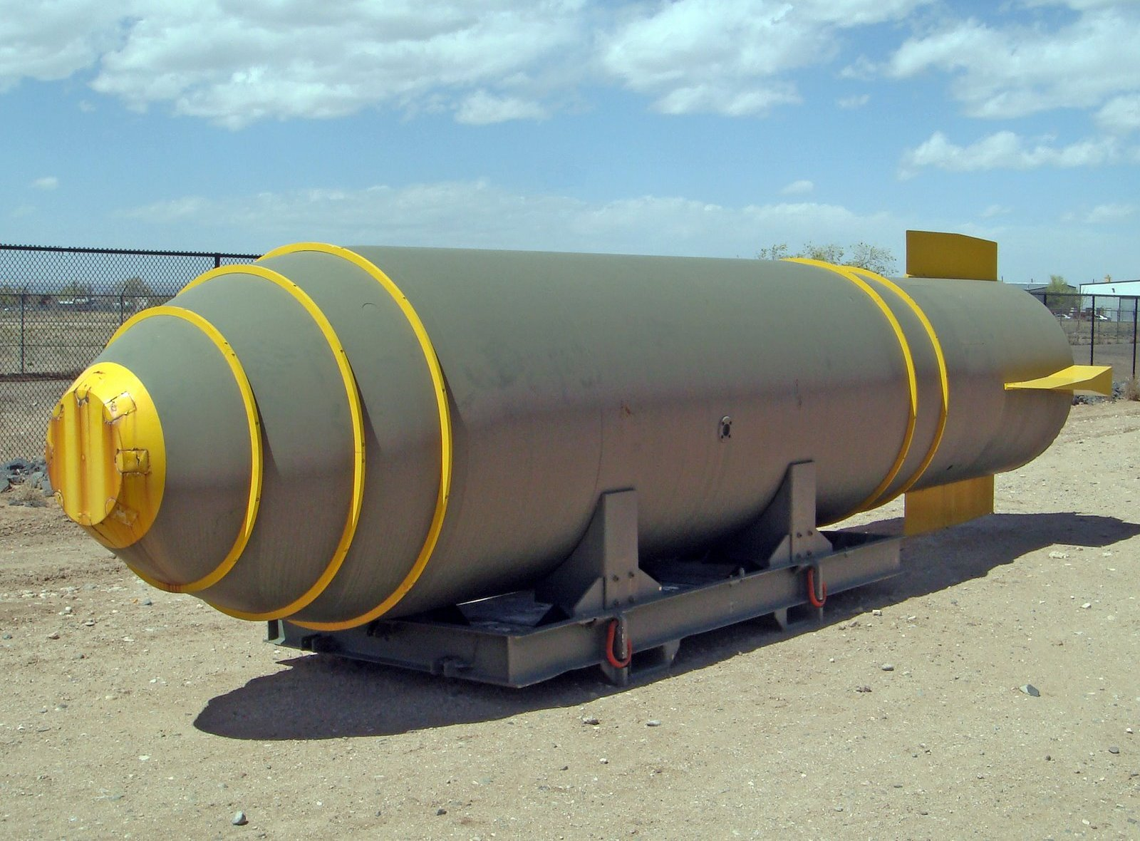 Mk-17 Thermonuclear Bomb at the National Museum of Nuclear Science & History.